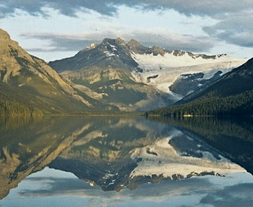 Division Mountain seen from Glacier Lake in Banff National Park Canada